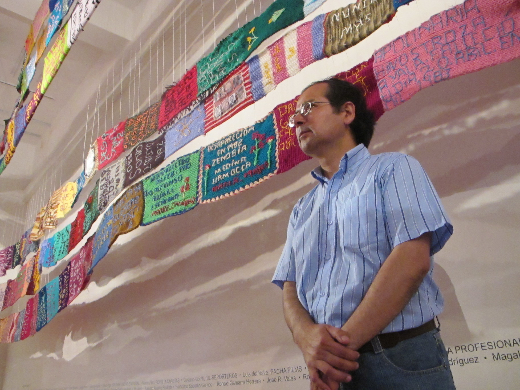 Gamarra is a peruvian lawyer.